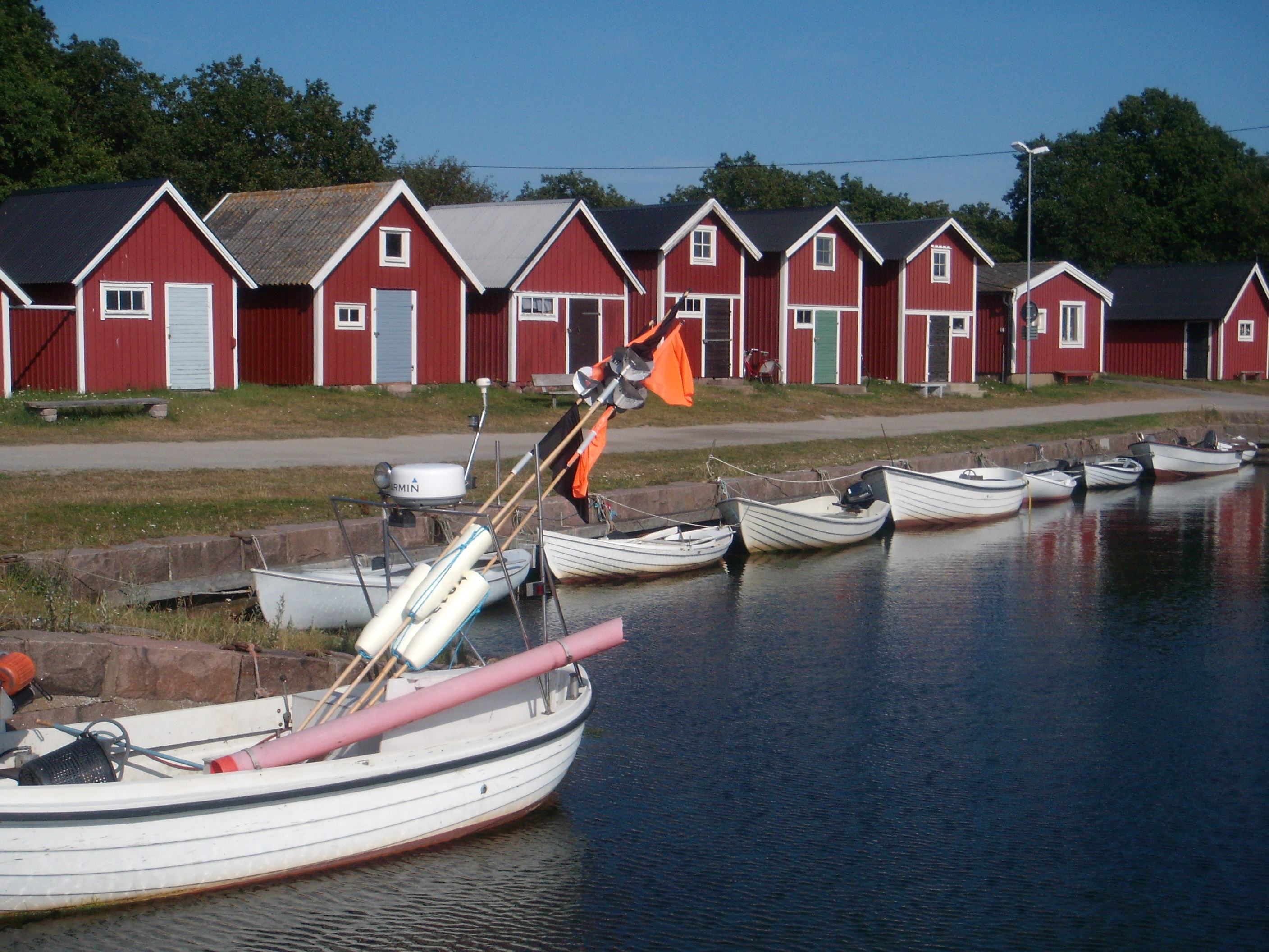 Traditionally fishing barns in Sweden, small village Torhamn- Blekinge